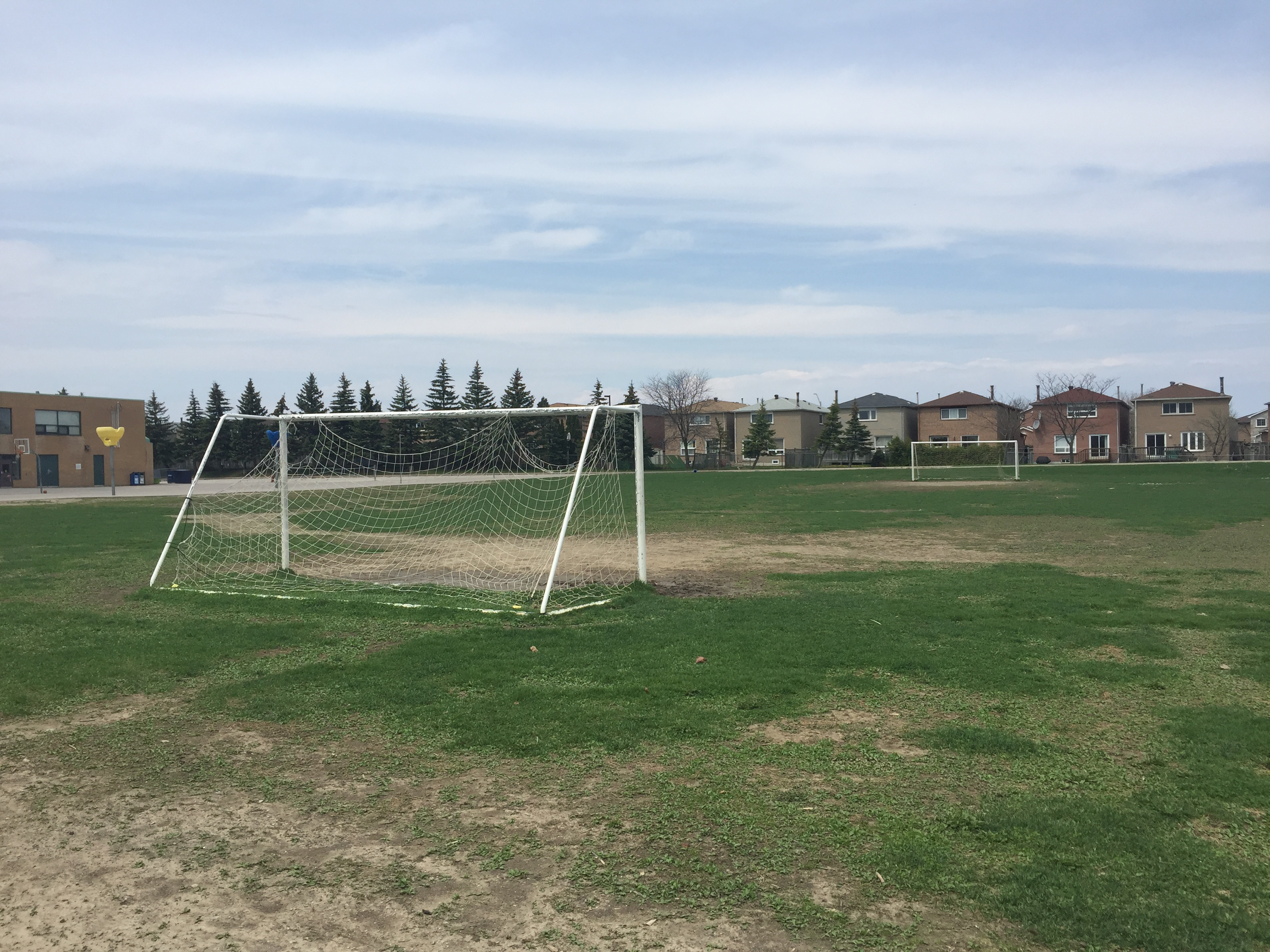 The Armadale Public School in Markham, Ontario.